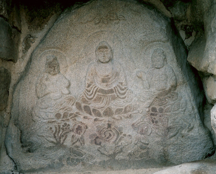 A Buddha Paradise Relief of ZUTO , NARA, about 110cm height, ACE 767